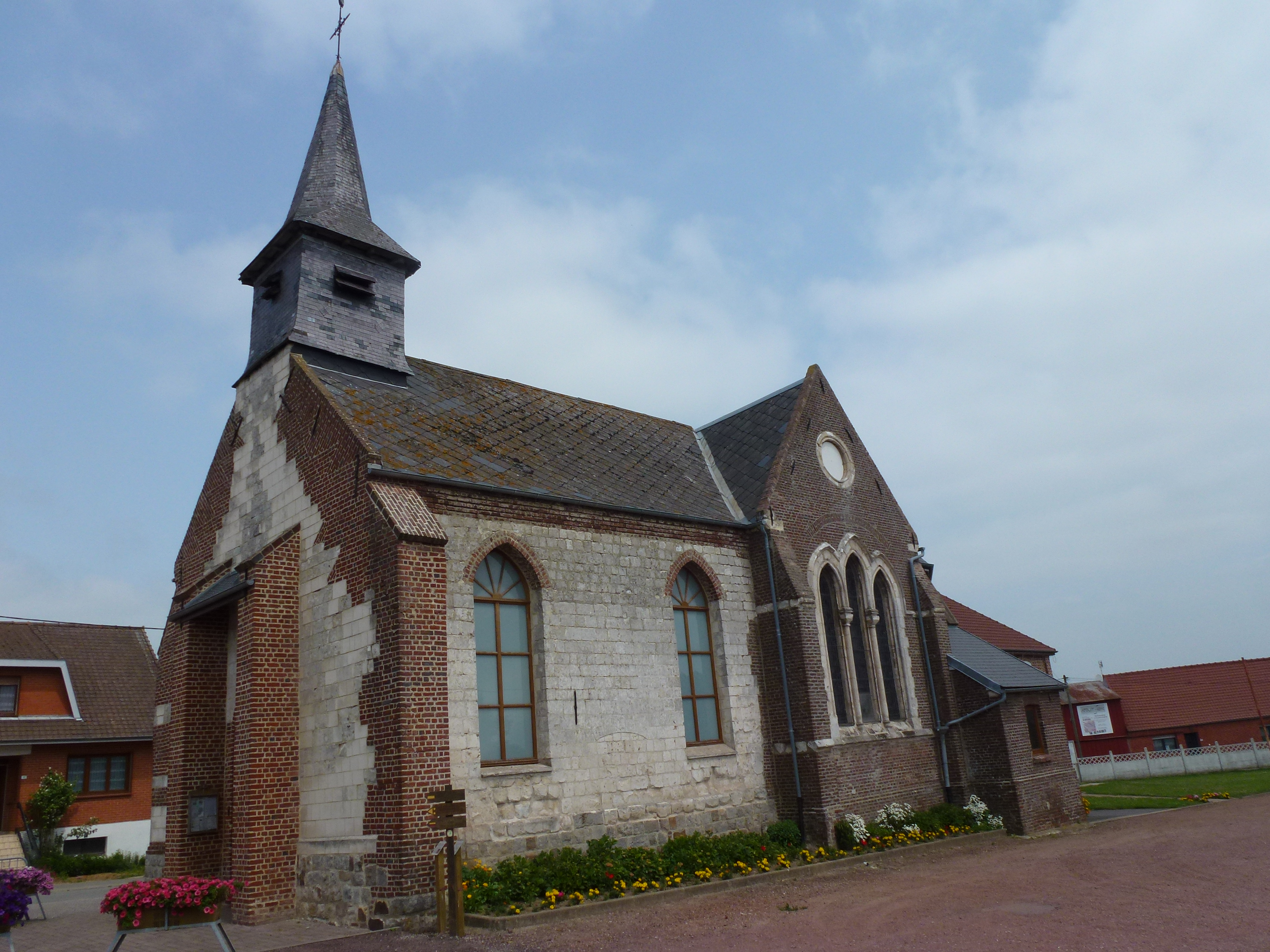 Aumerval (Pas-de-Calais, Fr) église